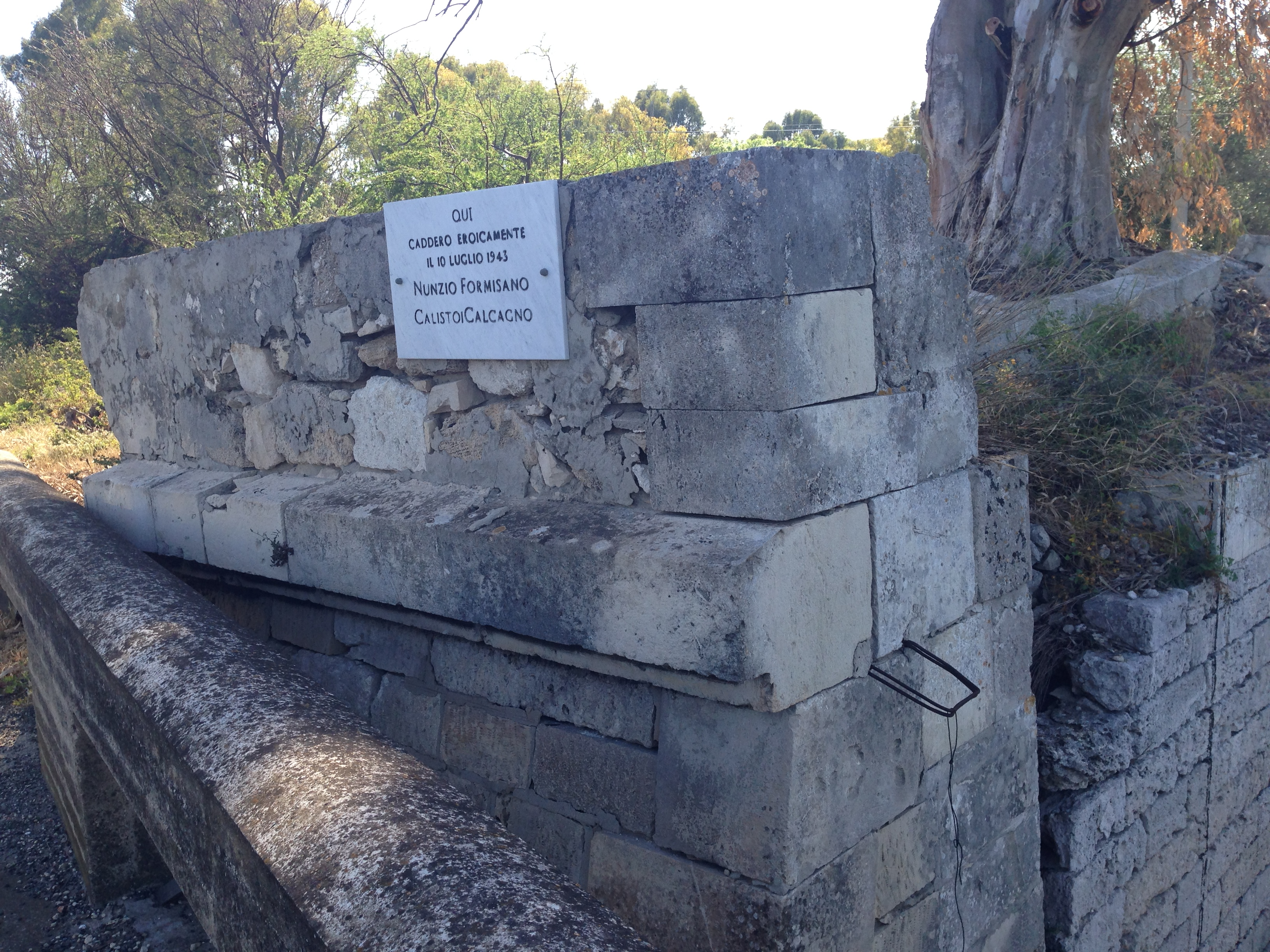 Inscription about 10th July 1943